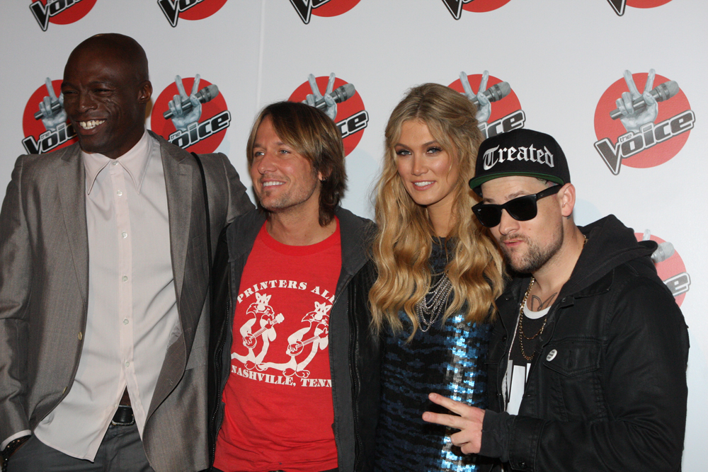 The Voice (Australia) coaches: Seal, Keith Urban, Delta Goodrem, and Joel Madden attending a media conference at Hordern Pavilion, Moore Park.